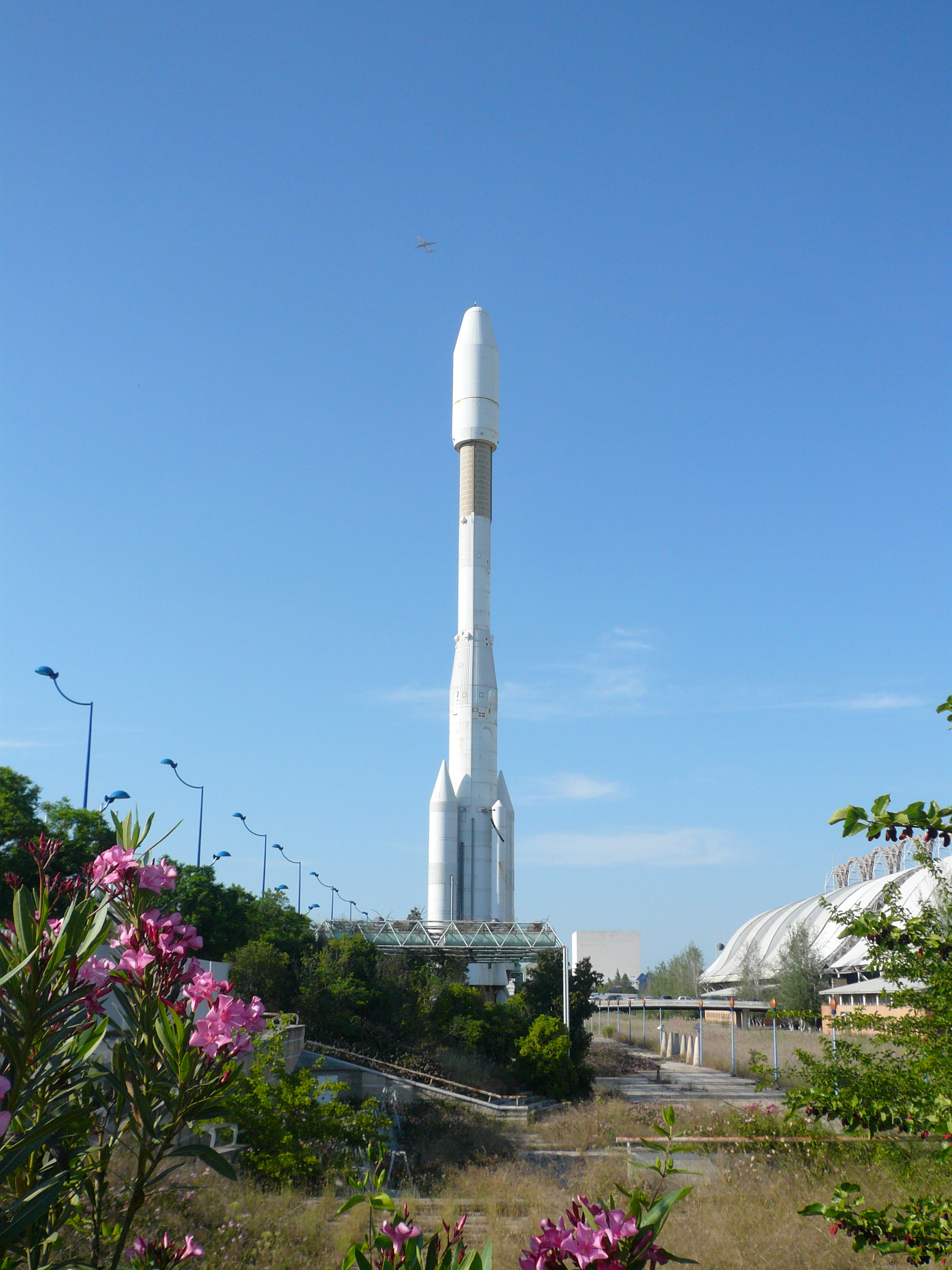 Ariane 4 rocket model at the Universal Exhibition in Sevilla, 1992.